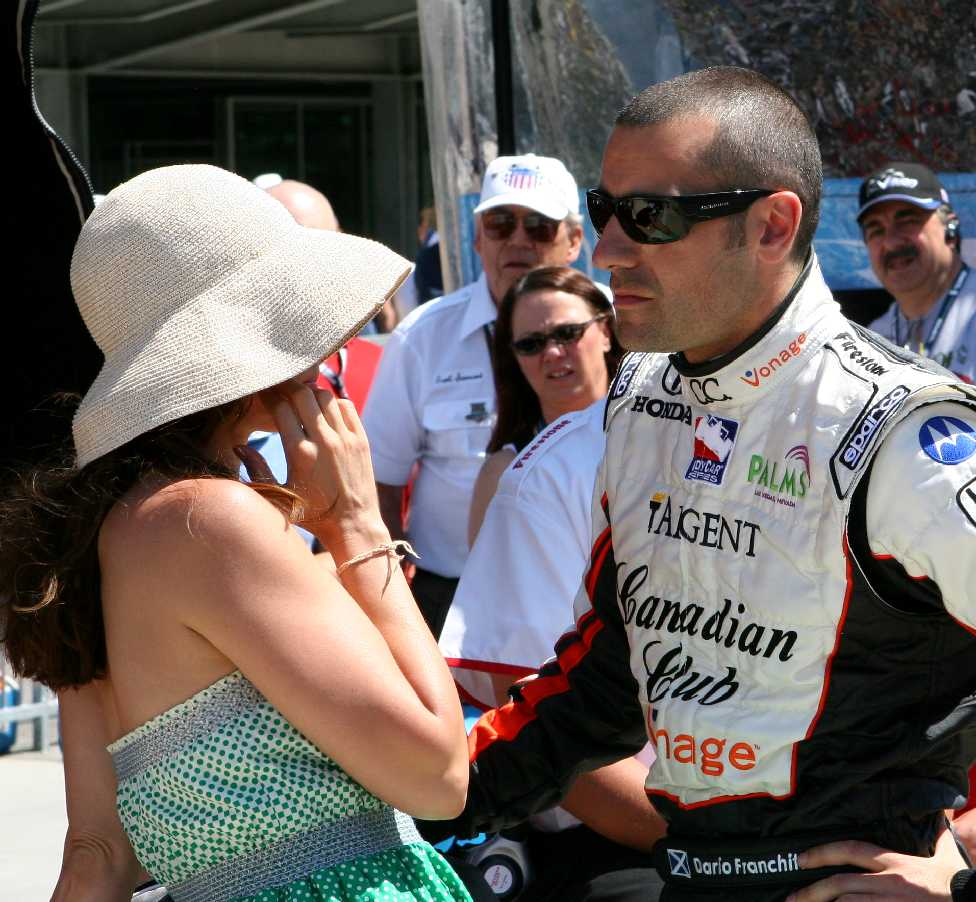 Dario at Indy with his wife, Ashley Judd, on May 13, 2007. Photo by Tim Wohlford